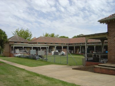 Bloomfield Hospital, Orange: Bloomfield Hospital. One of the Female Wards